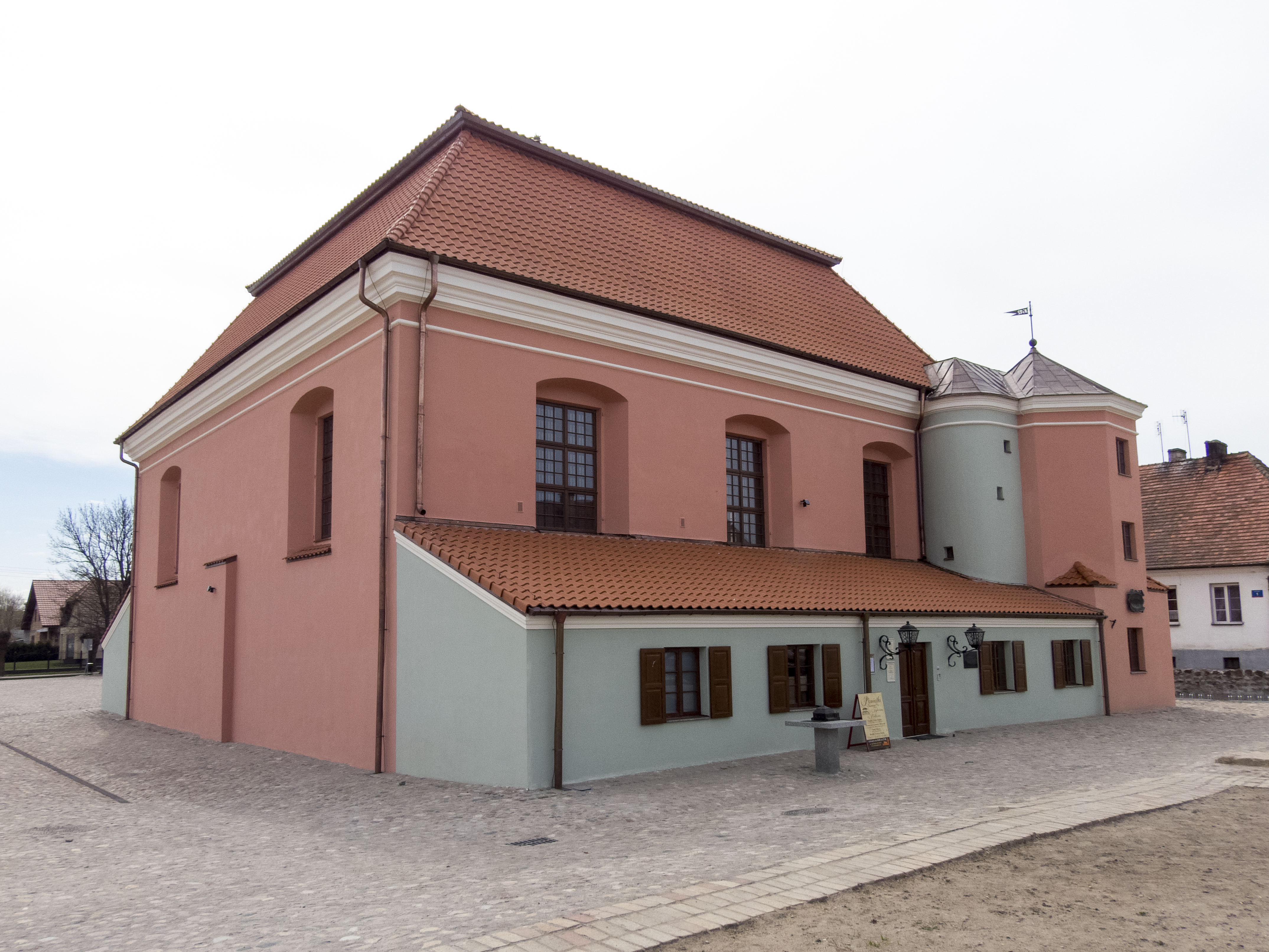 Tykocin (Poland) — City Synagogue